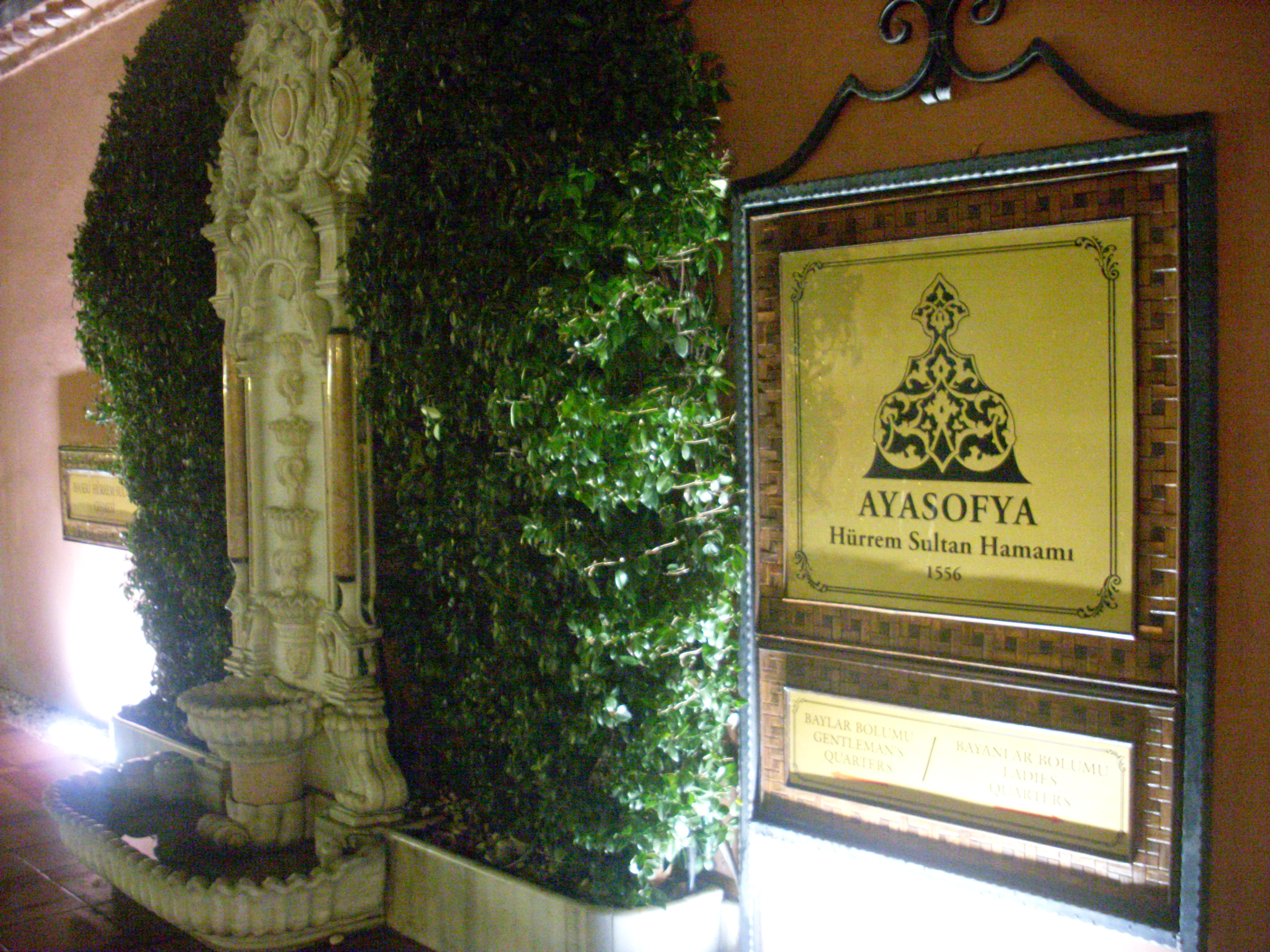 İstanbul - Haseki Hürrem Sultan Hamamı r1 - feb 2013